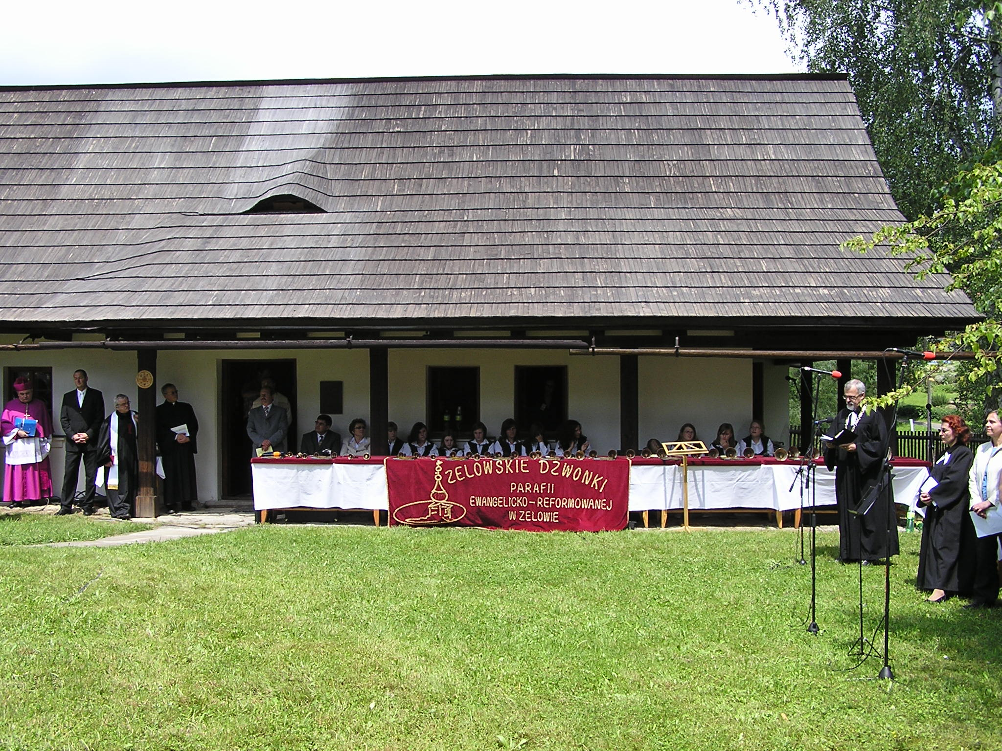 Zelow´s bells in Kunvald in the Czech Republic